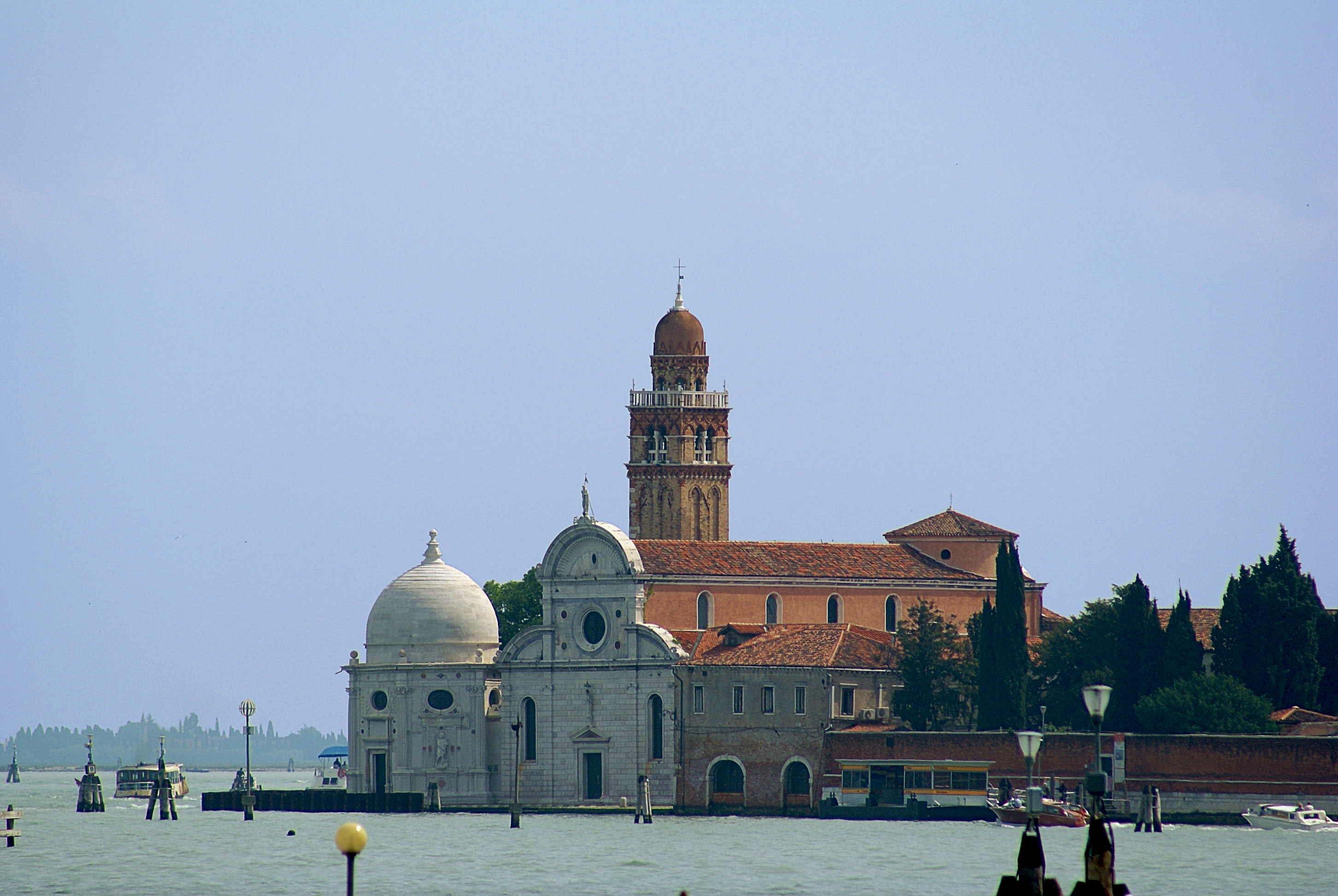 San Michele in Isola in Venice.